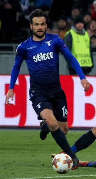 Marco Parolo